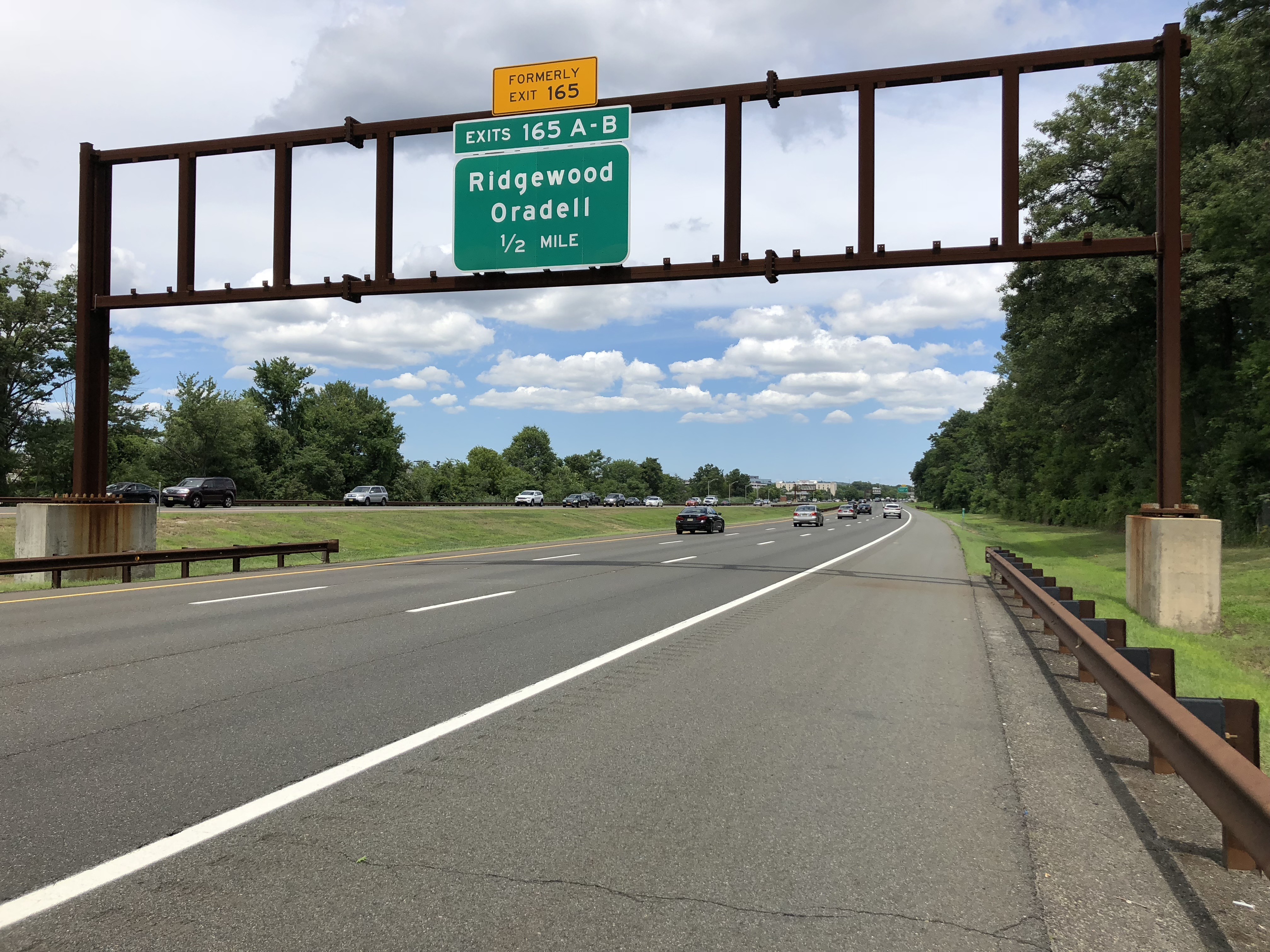 View north along New Jersey State Route 444 (Garden State Parkway) just south of Exit 165 (Ridgewood, Oradell) in Paramus, Bergen County, New Jersey